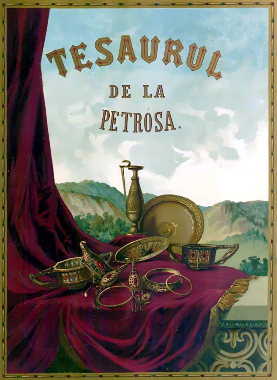 Pietroasele Treasure. Image from Al. Odobescu's monography